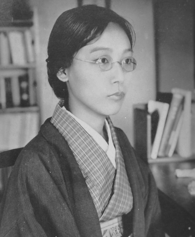 Japanese activist, writer, socialist, and feminist, Yamakawa Kikue (1890-1980)